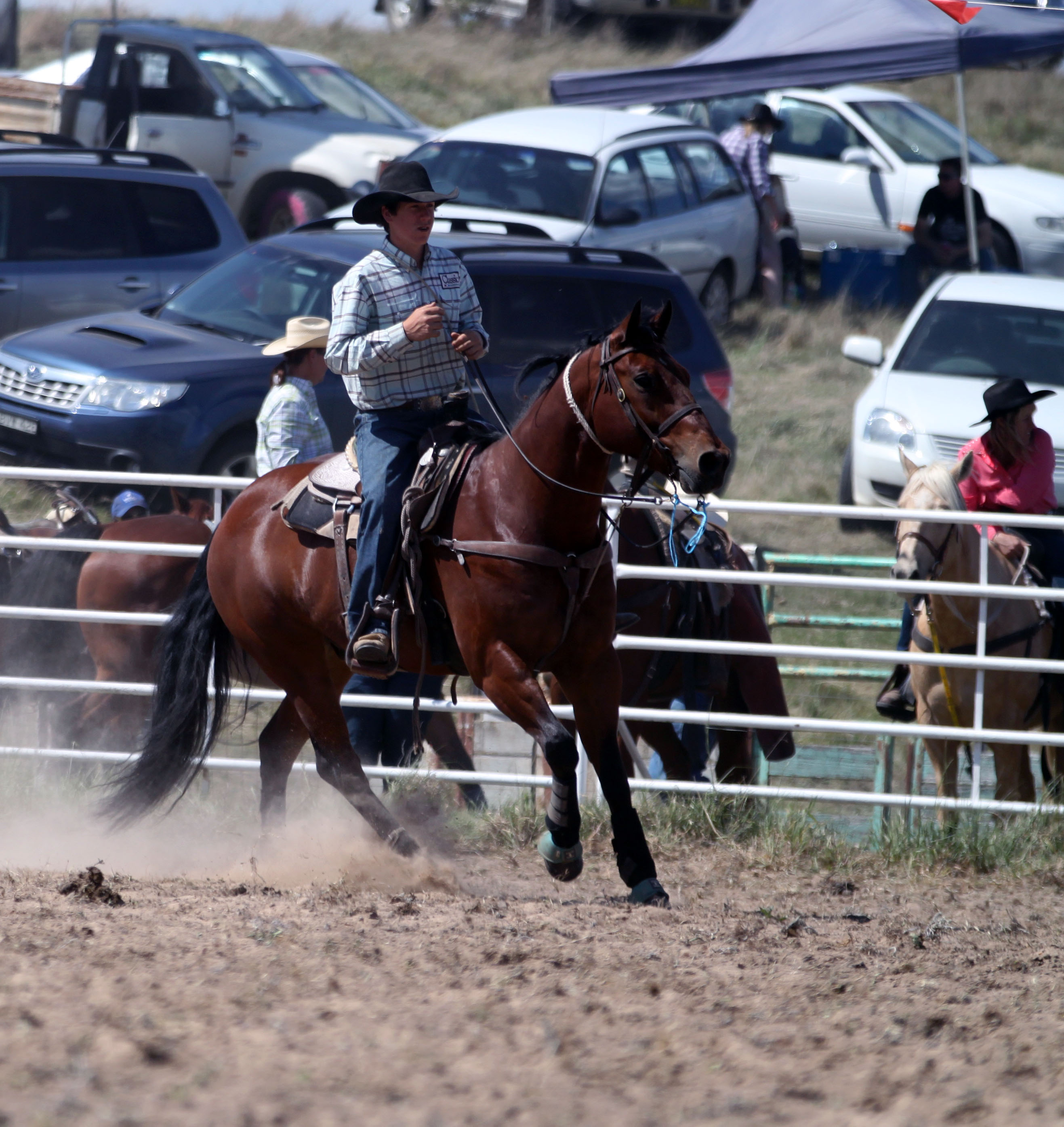 Braidwood Rodeo 2011